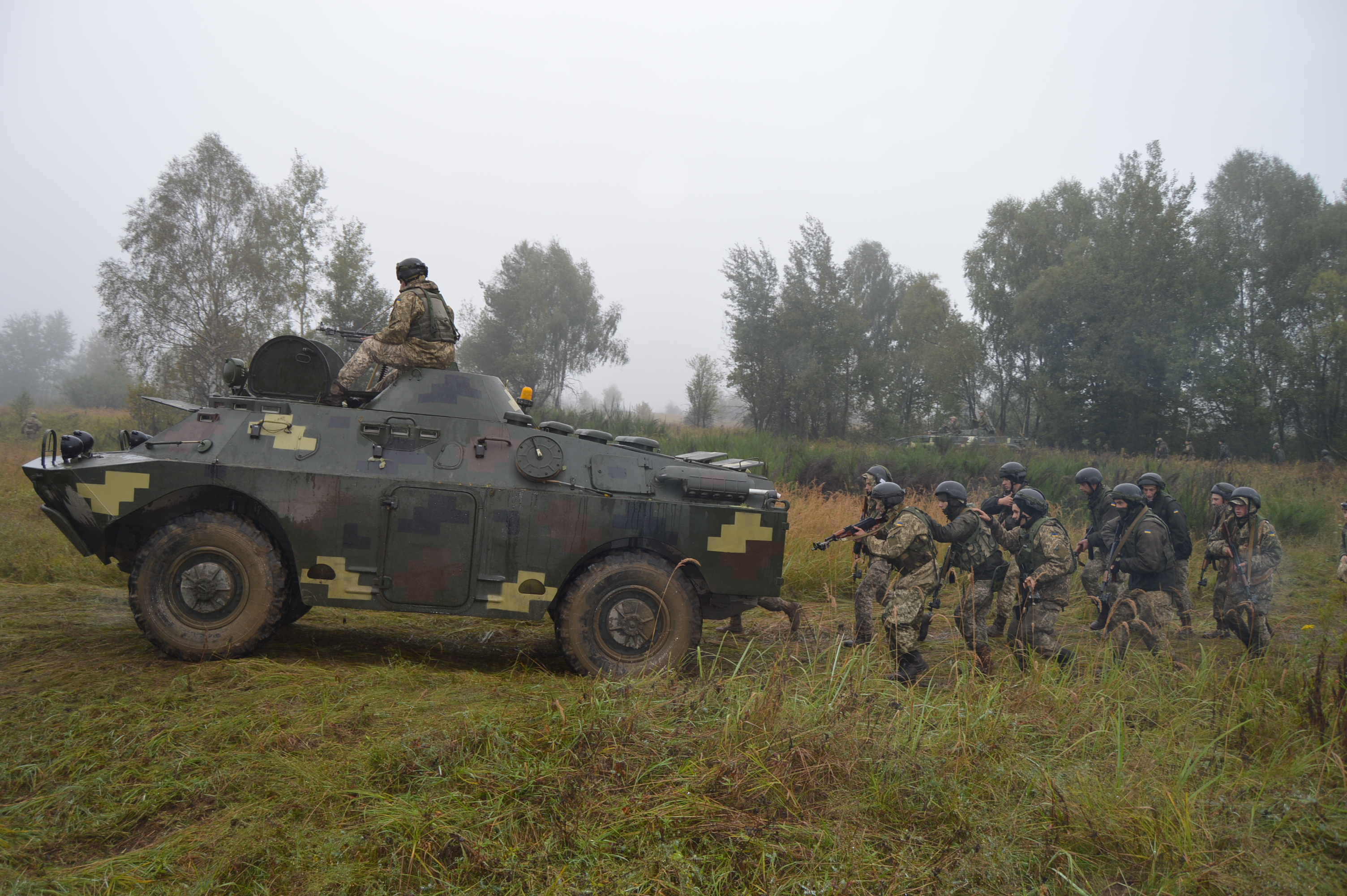 22 вересня, на базі Міжнародного центру миротворчості та безпеки Національної академії сухопутних військ імені гетьмана Петра Сагайдачного завершилося українсько-американське командно-штабне навчання із залученням військ «Репід Трайдент - 2017».